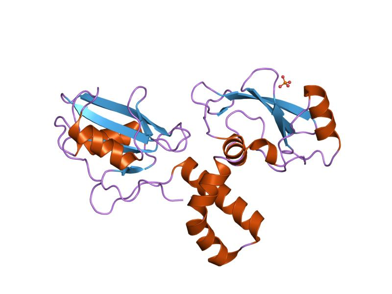 Cartoon representation of the molecular structure of protein registered with 1m61 code.